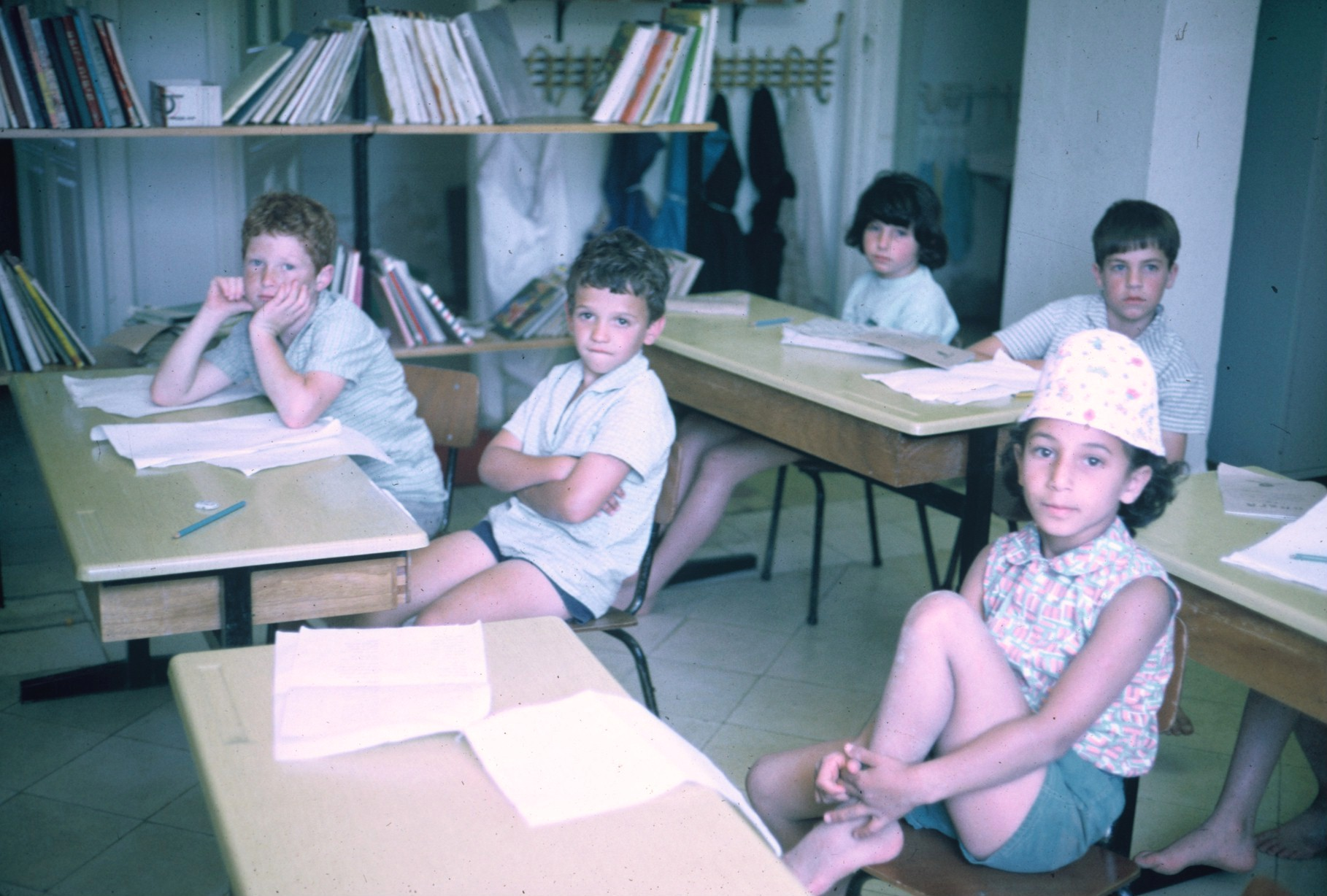 Education in the Golan heights